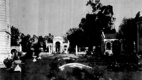 Kathmandu.